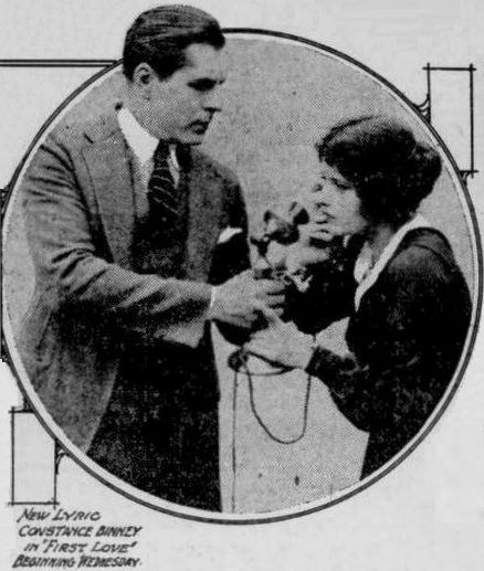 Newspaper advertisement for the American romantic comedy film First Love (1921) with Warner Baxter and Constance Binney, on page 8 of the March 4, 1922 Duluth Herald.